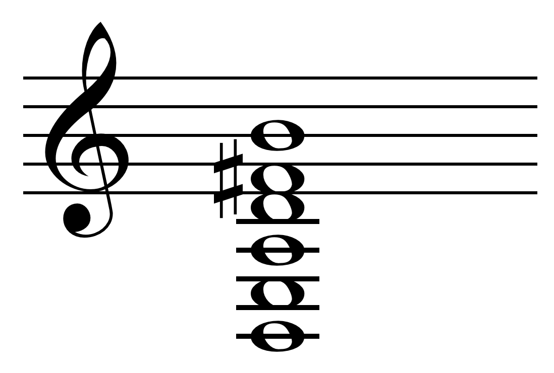 Baritone tuning.